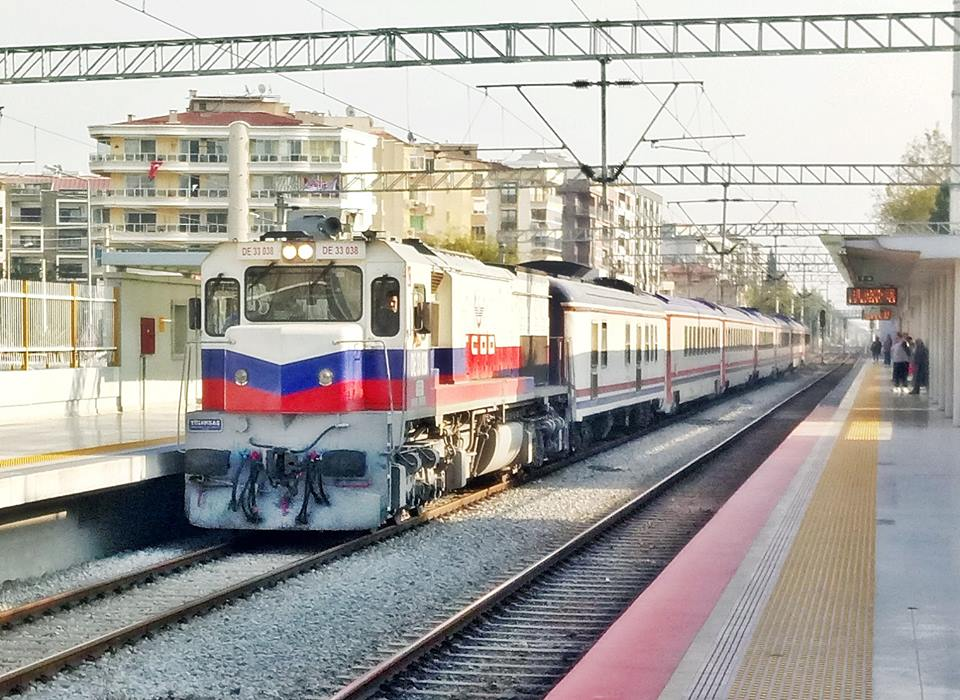 Usak Express at Semikler station.